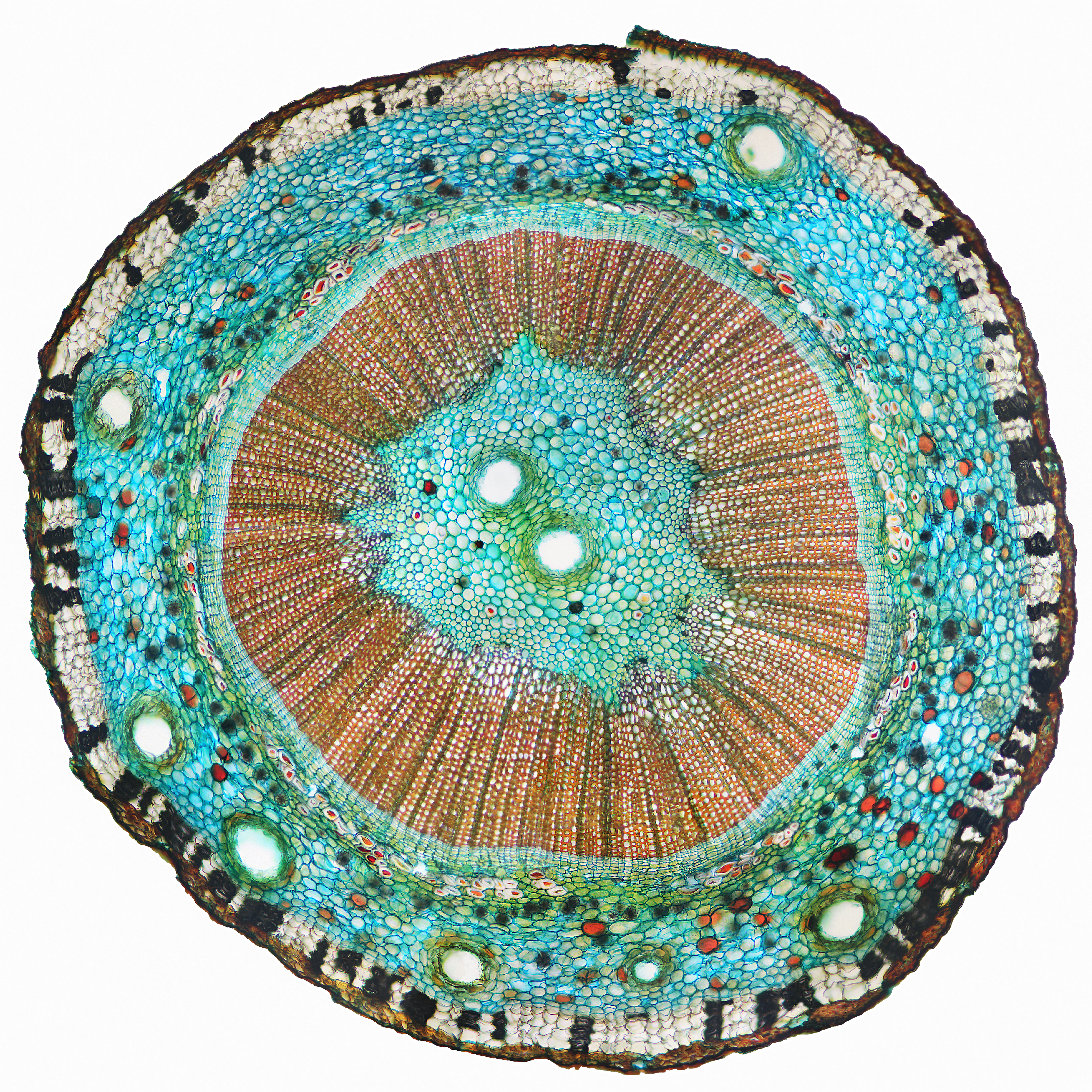 Cross-section of the stem of a Gínkgo bilóba shoot (diameter: 4mm). Polychrome painting by Wacker. Stacking of 17 pictures. Brightfield